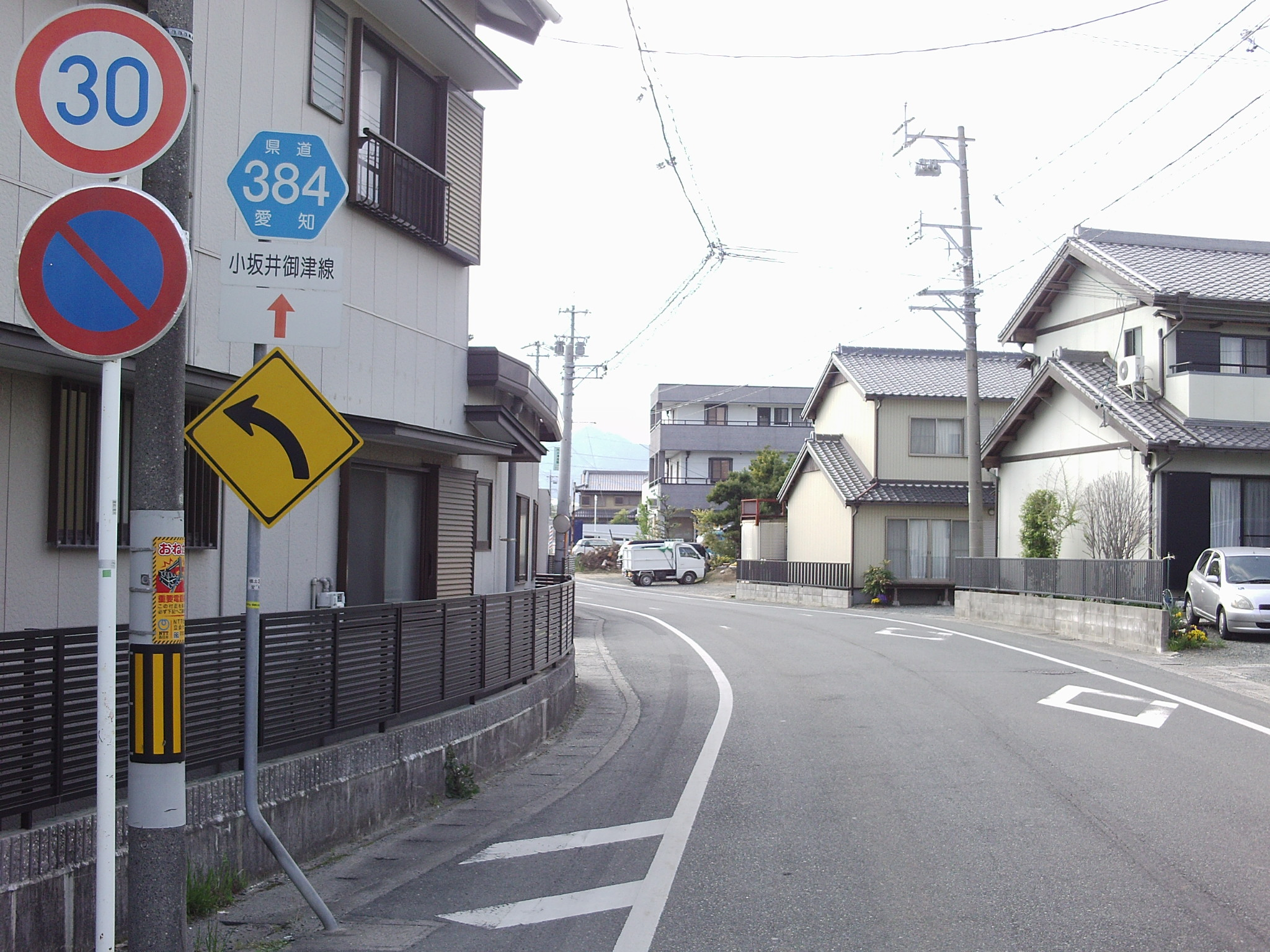 Aichi prefectural road No.384 in Mitochoshimosawaki, Toyokawa, Aichi.